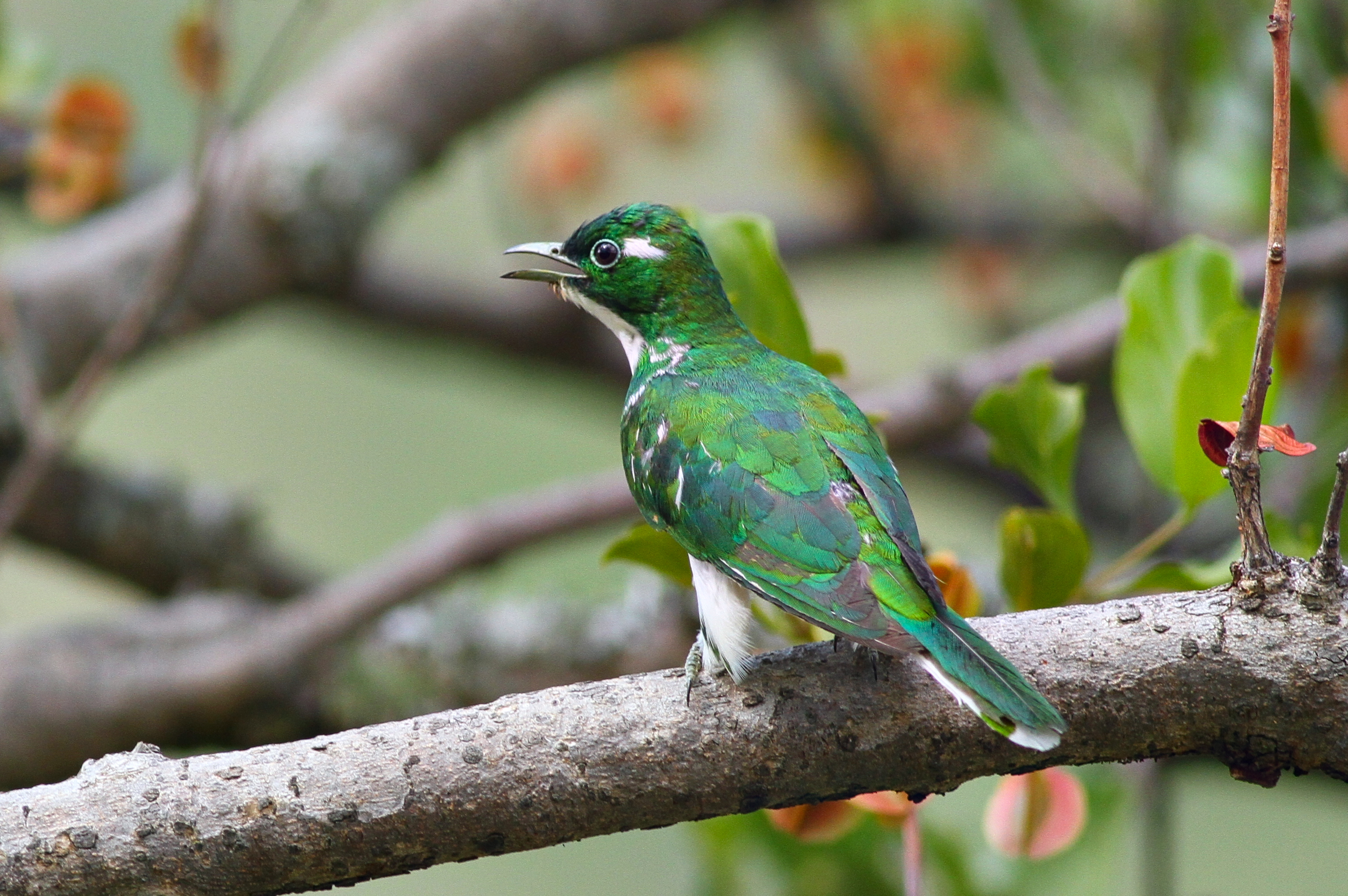 There is a story behind this bird. It was in a tree in one of the picnic sites that is not well maintained. While I was taking the photo, a lone bull elephant pressed down the heavy cable of the fence, and stepped over it, and stood about 3m away eating a tree. It blocked my exit, and was slowly moving towards where I was standing under a nice lucious green tree. I grabbed my camera, and ran to the back of the site, I had to climb outside the fence, and walk back to the car out in the park. Then I had to wait over an hour in the car for the elephant to get 10m or so away, and ran back in and grabbed my tripod and backpack. There was adrenaline that day!